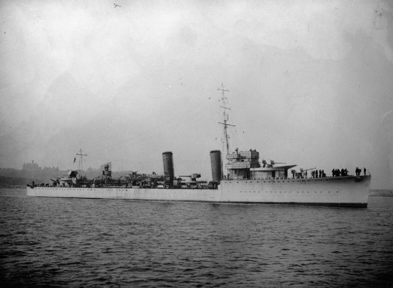 Photograph of British destroyer flotilla leader HMS Montrose.